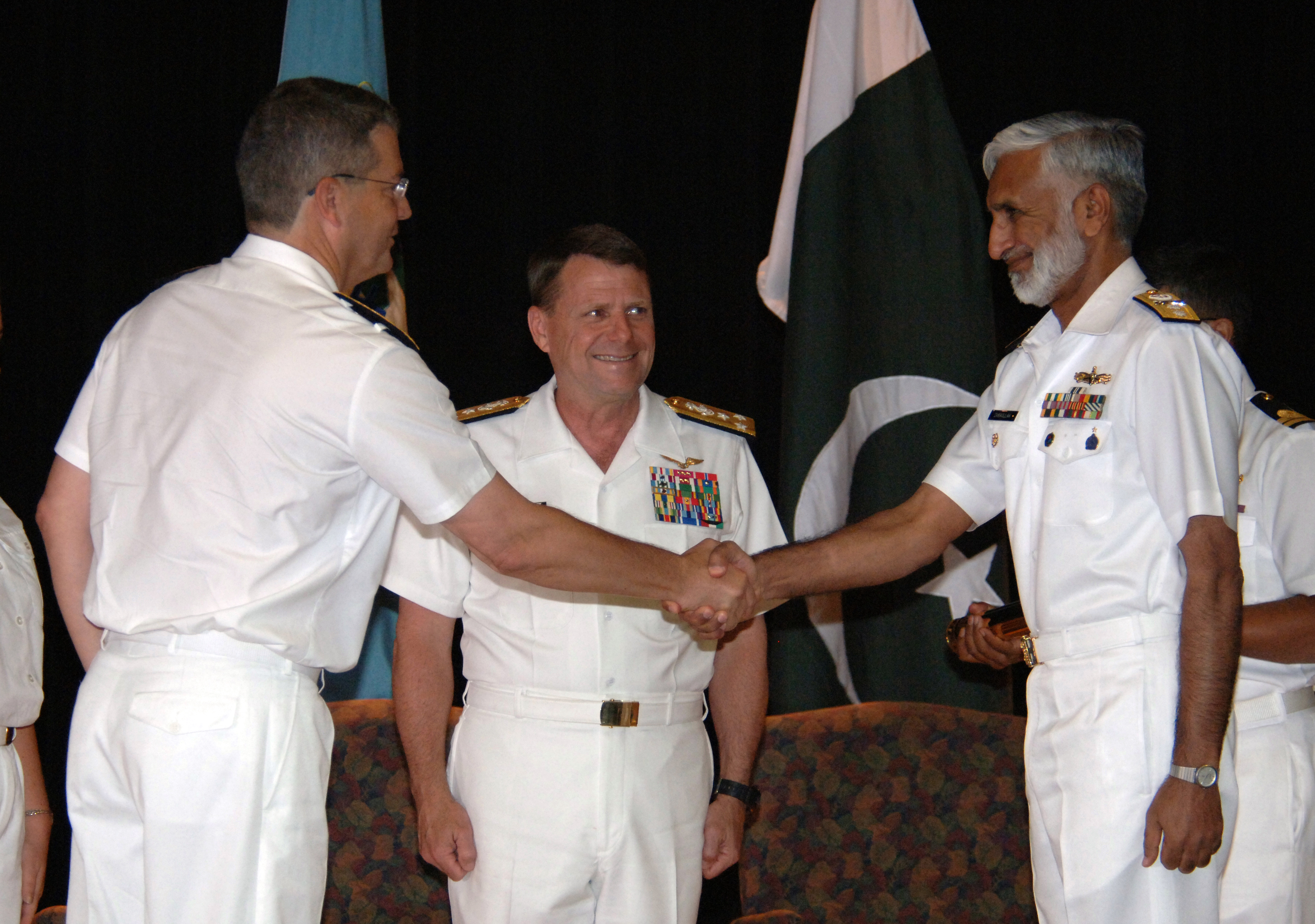 MANAMA, Bahrain (July 20, 2009) French Rear Adm. Alain Hinden, left, shakes hands with Pakistan Navy Rear Adm. Muhammad Zakaullah, right, at the Combined Task Force (CTF) 150 change of command ceremony while Vice Adm. Bill Gortney, center, commander, Combined Maritime Forces, looks on. The ceremony concluded the French Navy's sixth successful command of (CTF) 150, a task force conducts Maritime Security Operations in the Gulf of Aden, Gulf of Oman, Arabian Sea, Red Sea and the Indian Ocean. This is the Pakistan Navy's third time leading the task force. (U.S. Navy photo by Mass Communication Specialist Second Class D. Keith Simmons/Released)